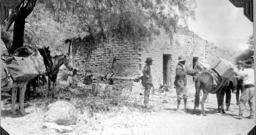 Loading fossil on mules. Brick building in background.. 1926. Name of Expedition: 2nd Captain Marshall Field Paleontological Expedition Participants: Elmer S. Riggs (Leader and Photographer),Robert C. Thorne (Collector), Rudolf Stahlecker (Collector), Felipe Mendez Expedition Start Date: April 1926 Expedition End Date: November 1926 Purpose or Aims: Geology Fossil Collecting Location: South America, Catamarca, Puerta Corral Quemado Original material: album print Digital Identifier: CSGEO69413 Learn more about The Field Museum's Library Photo Archives.